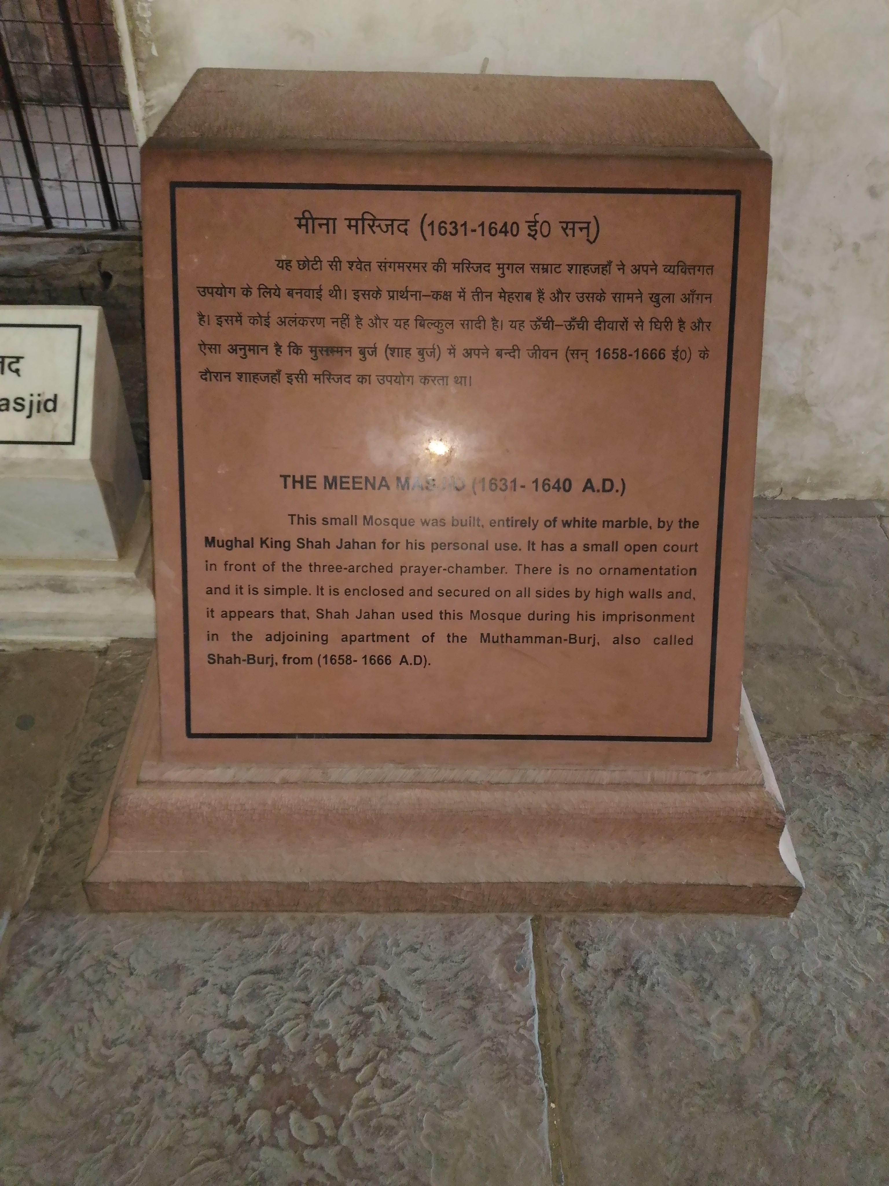 meena masjid agra fort